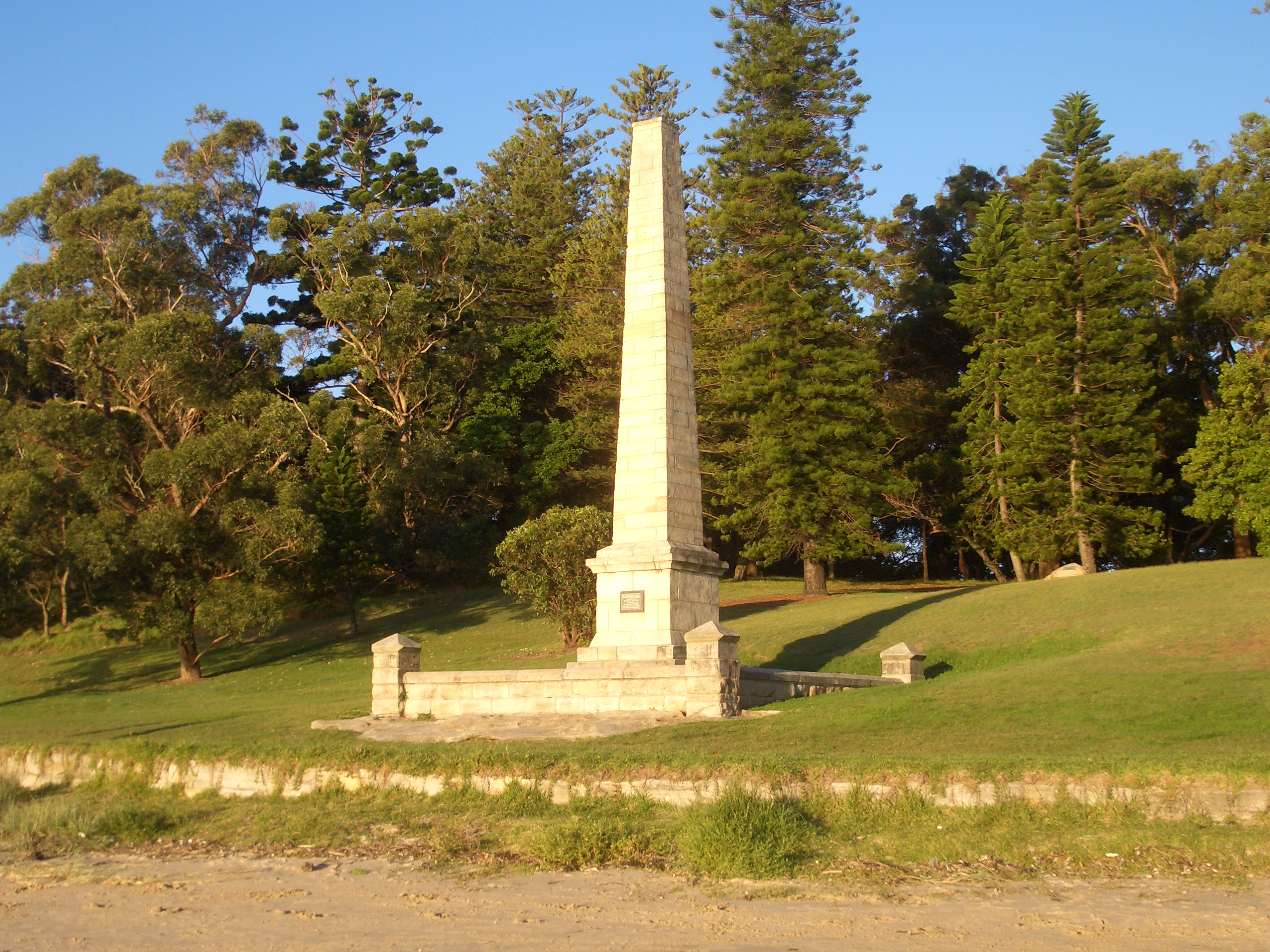 Kurnell, view from Botany Bay